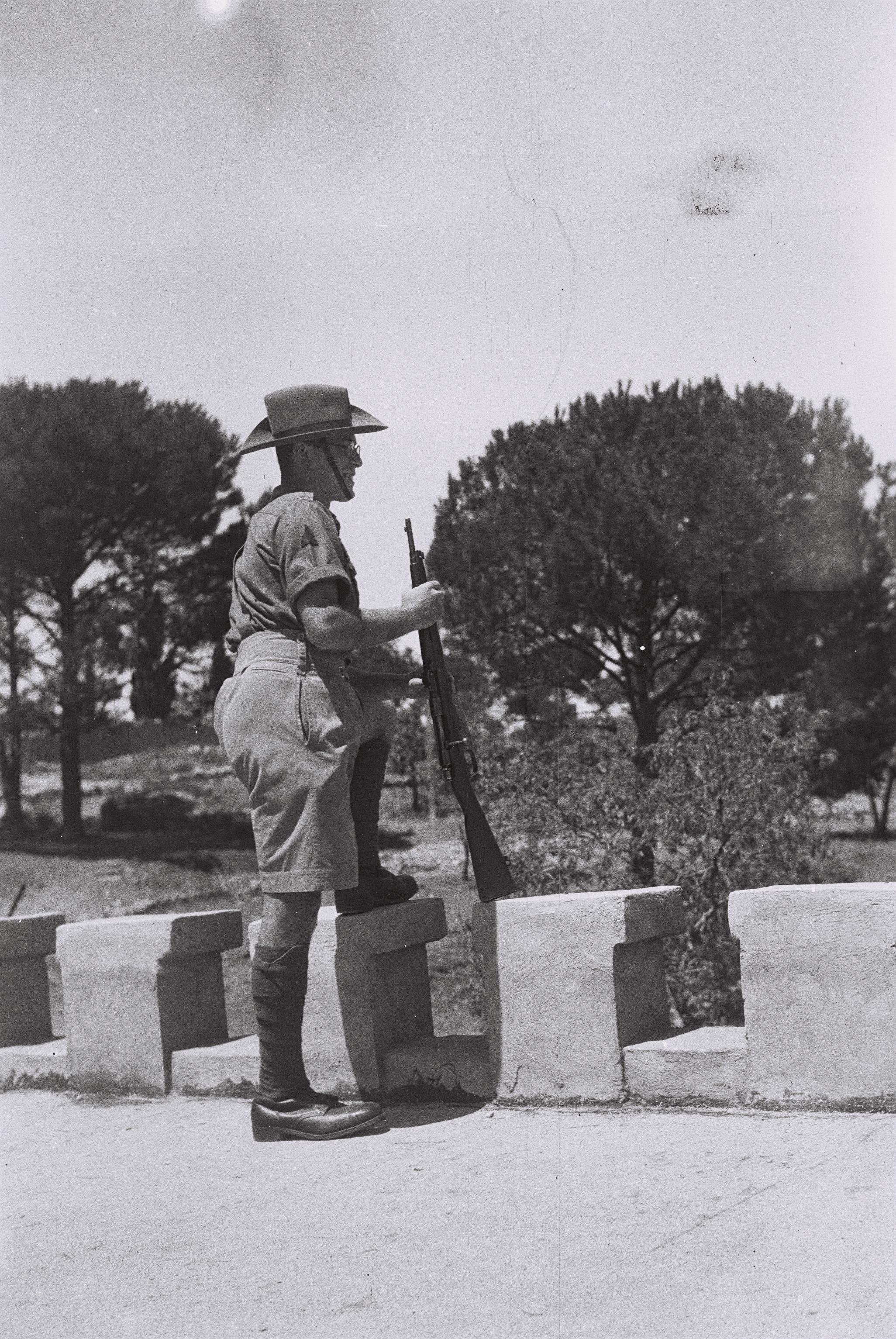 A MEMBER OF THE JEWISH SETTLEMENT POLICE ON GUARD ON THE ROOF OF THE CENTRAL BUILDING AT KIBBUTZ KFAR ETZION. שוטר של היישוב היהודי שומר על גג בניין בקיבוץ כפר עציון.